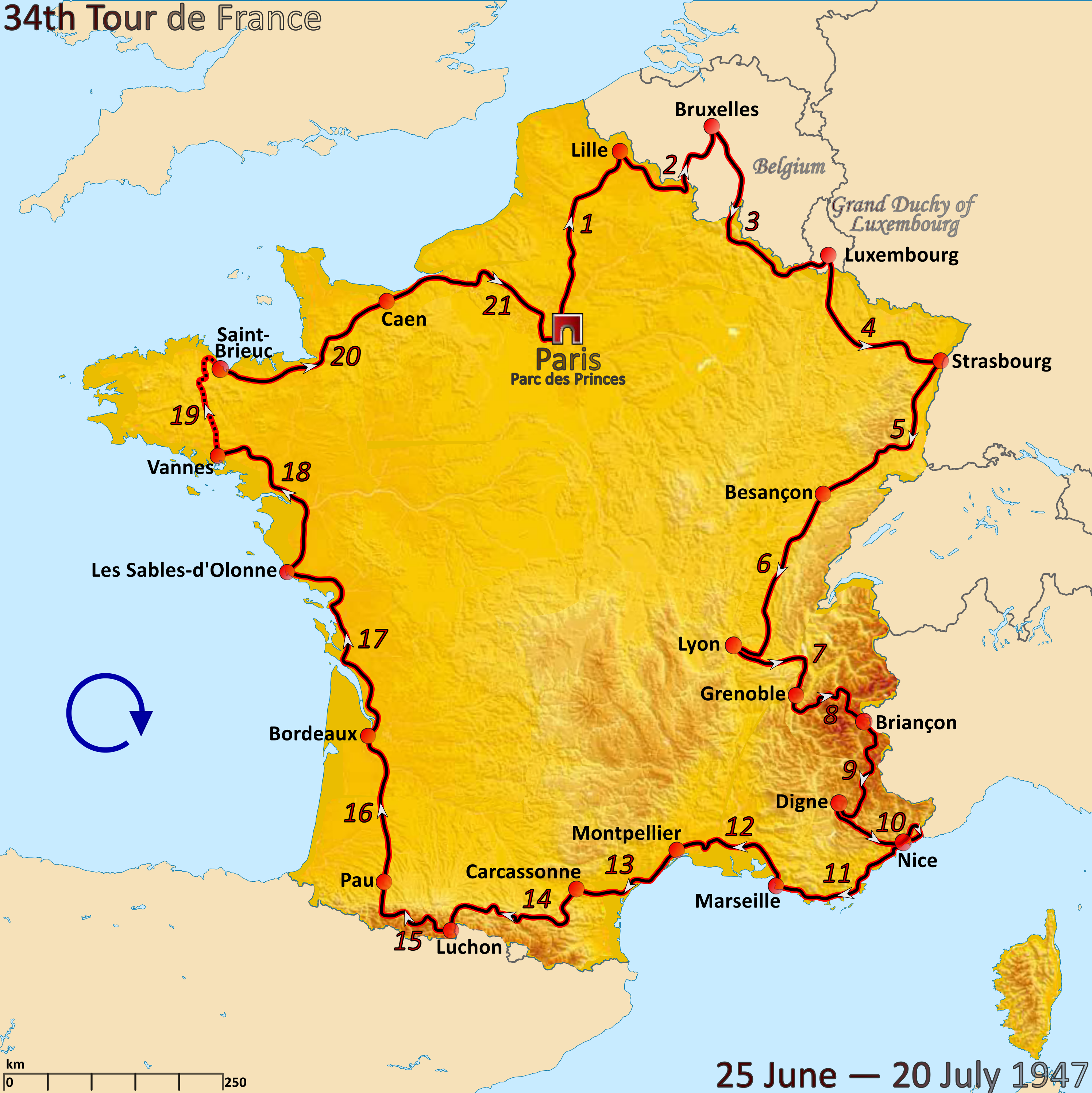 Route of the 1947 Tour de France created in Inkscape using accurate stage maps from touratlas.nl